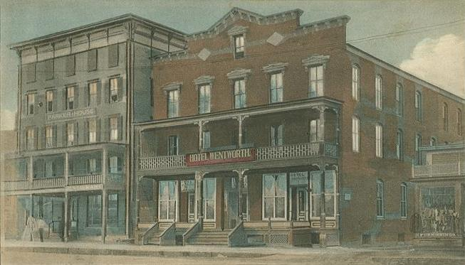 Parker House and Hotel Wentworth, Woodsville, New Hampshire. The Parker House burned in 1912, and The Hotel Wentworth in 1968.